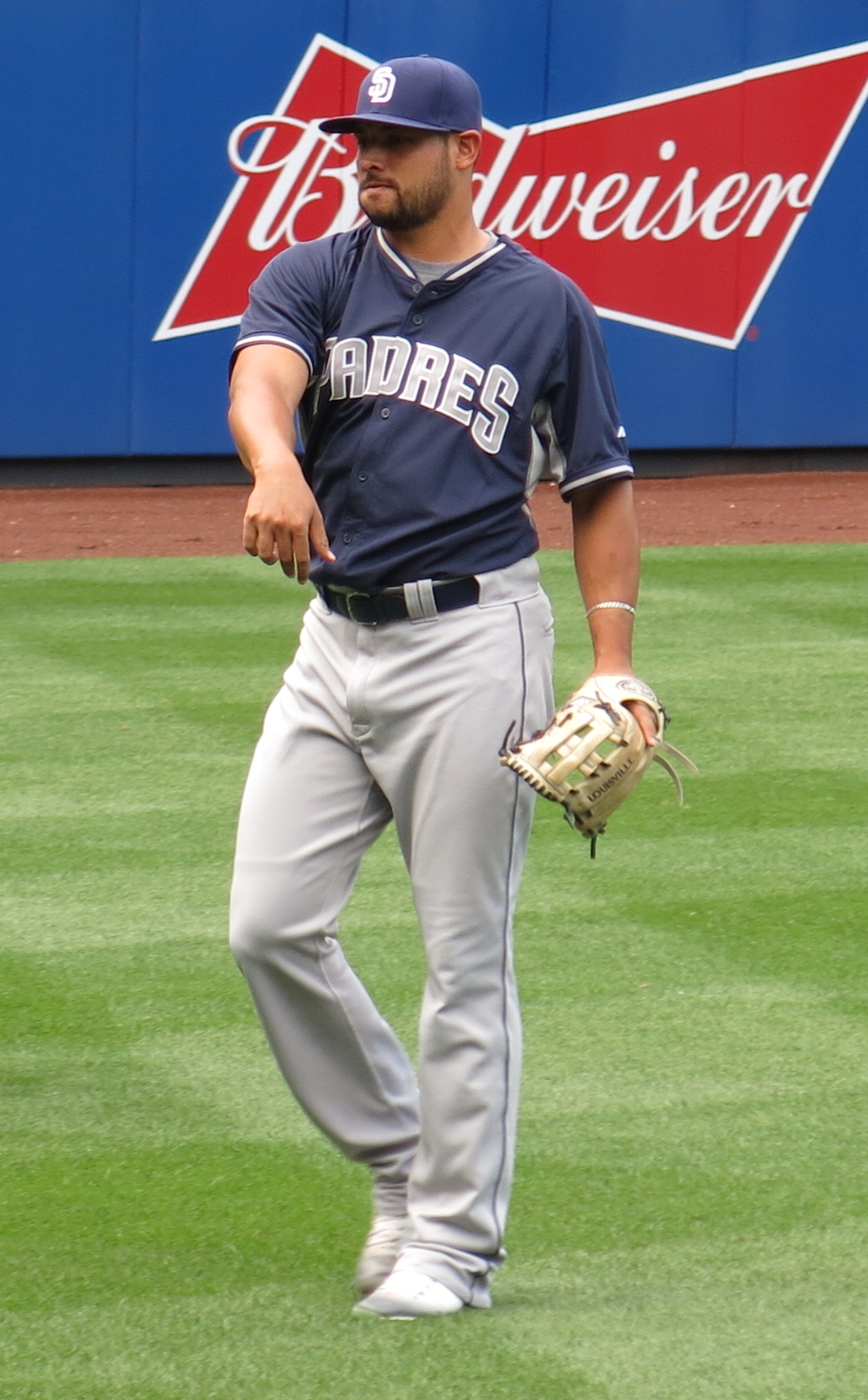 Leonel Campos of the San Diego Padres, August 12, 2016.